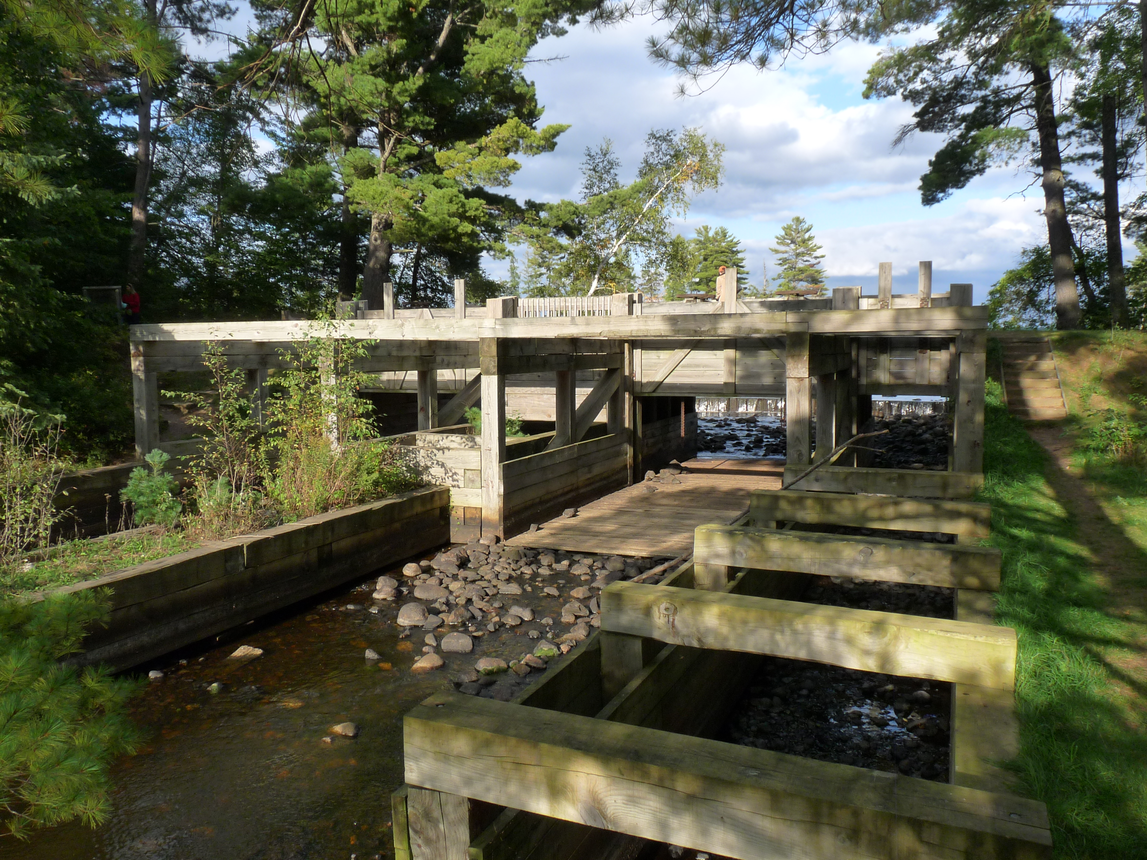 The Round Lake Logging Dam, east of Fifield, Wisconsin, was built in 1878 to control water flow on the Flambeau River so that pine logs could be driven down the river to sawmills. The reconstructed dam is the last known such dam in Wisconsin, and is on the National Register of Historic Places.